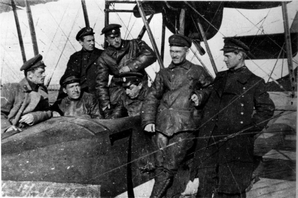 Irakliy Metaksa (sitting on plane), one of the 26 Baku Commissars